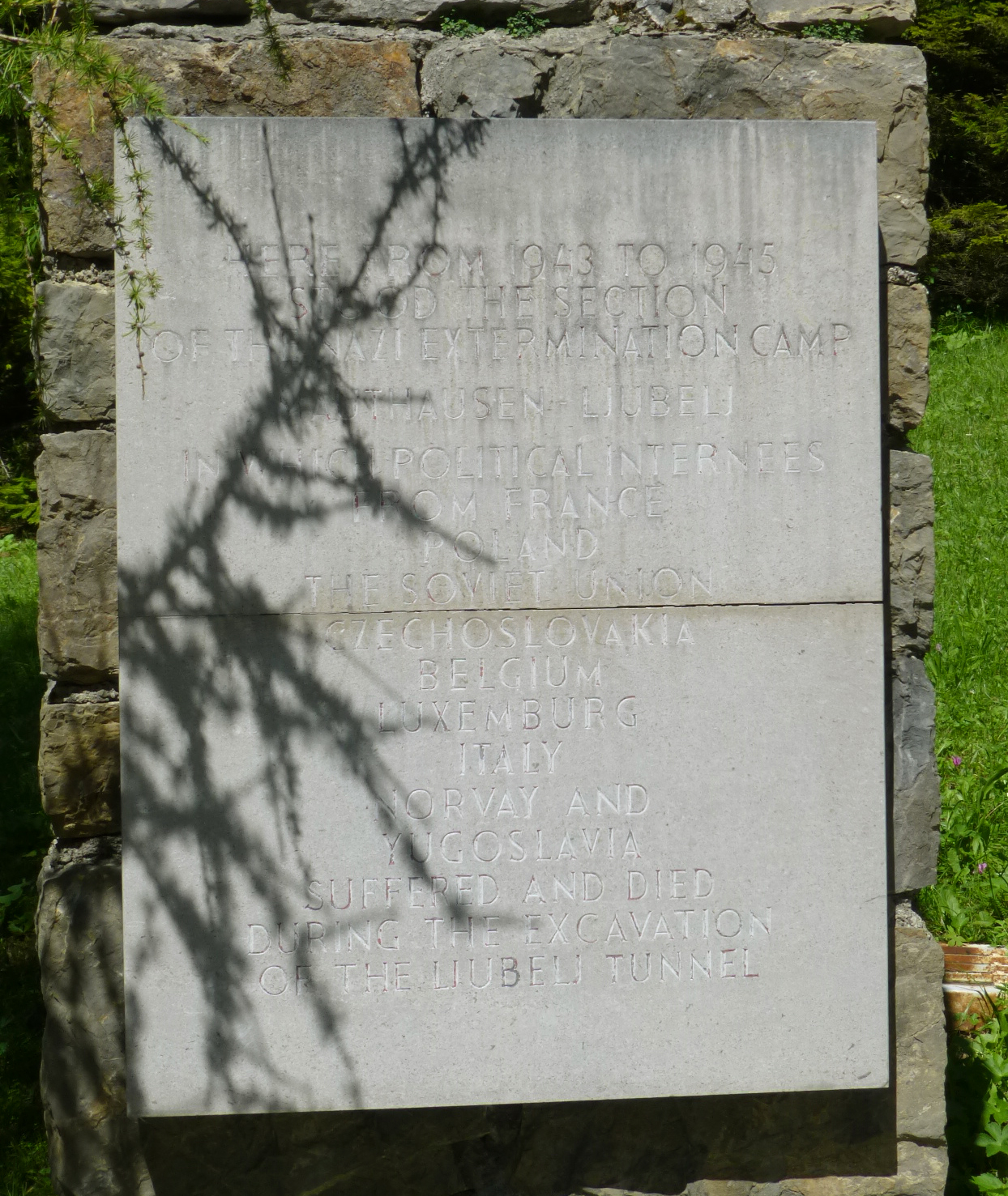 English text in the monument to the victims of the forced tunnel work in 1943-1945, including Belgians. Road to Podljubelj, Gorenjska, Slovenia.